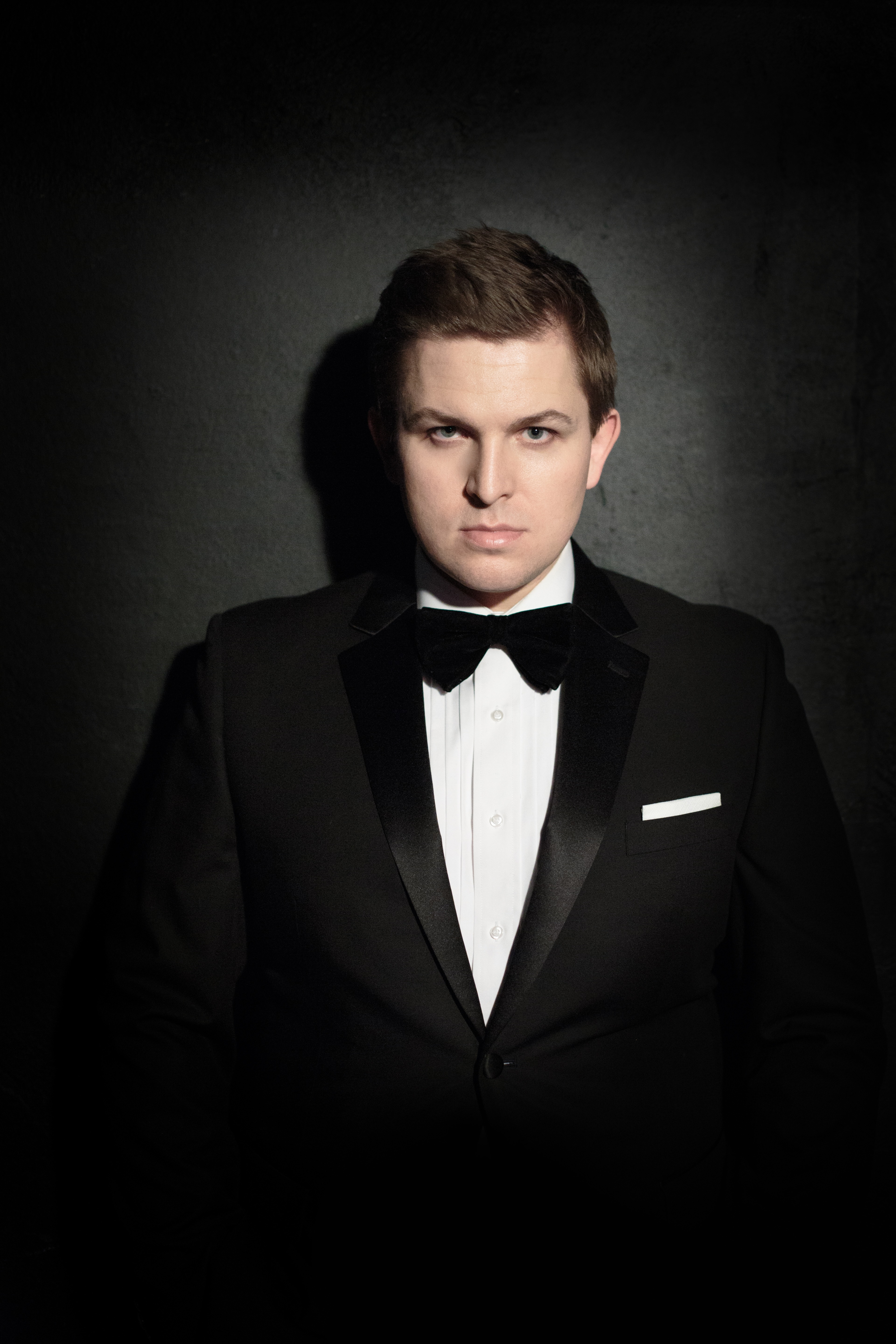 Ilya Silchukov is a Belarusian operatic baritone from Minsk, Belarus. Ilya is a member of the Belarus National Academic Opera And Ballet Theater. Ilya Silchukov is known for his exceptional and near to perfect legato.